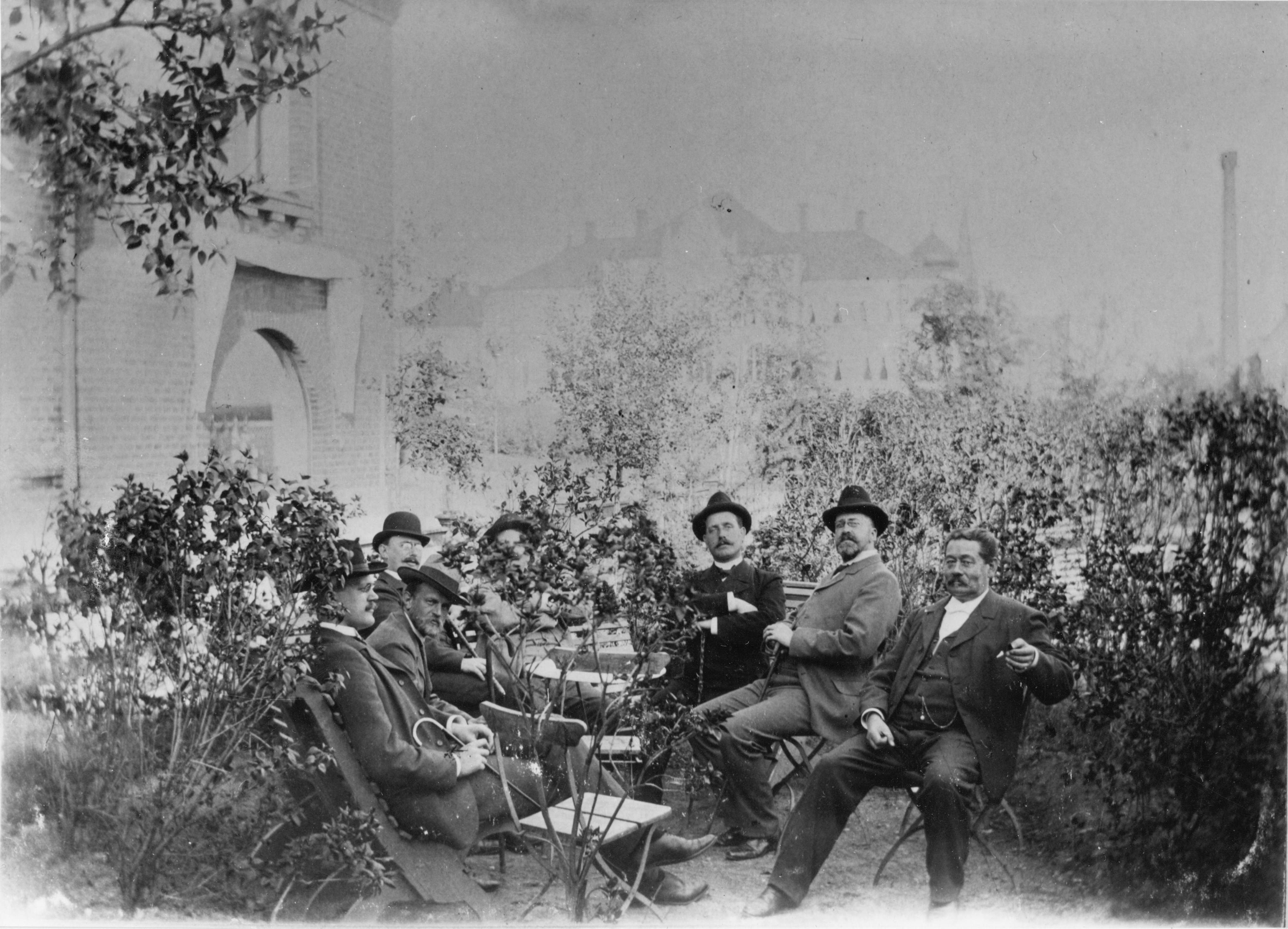 Stora hotel terrace with outdoor seating